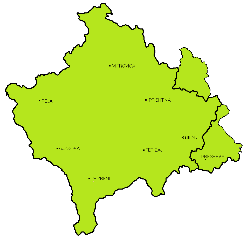 This map represents the territores that are under the authority of the Islamic Community of Kosovo. The cities represents the seats of the Regions of the ICK, with Pristina its main seat.